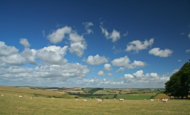 Sheep graze next to ox drove Cranborne Chase